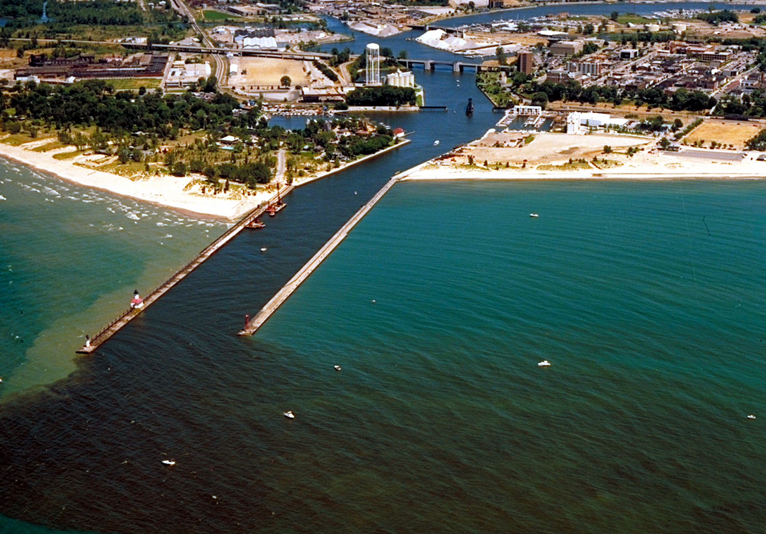 The shore and river outlet at St. Joseph, Michigan, USA. The St. Joseph River flows into Lake Michigan through the city of the same name.